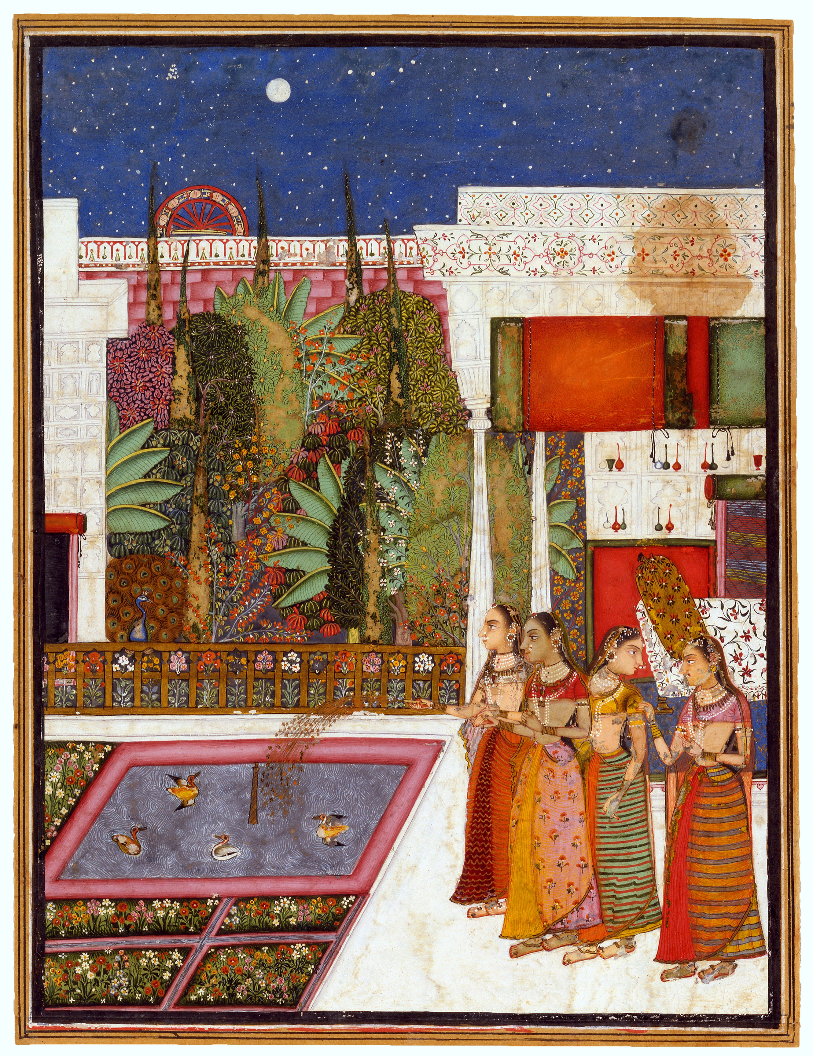 Four Love Scenes and a Landscape. Page from a Dispersed Raskapriya. Bundi, ca.1700, Metropolitan museum